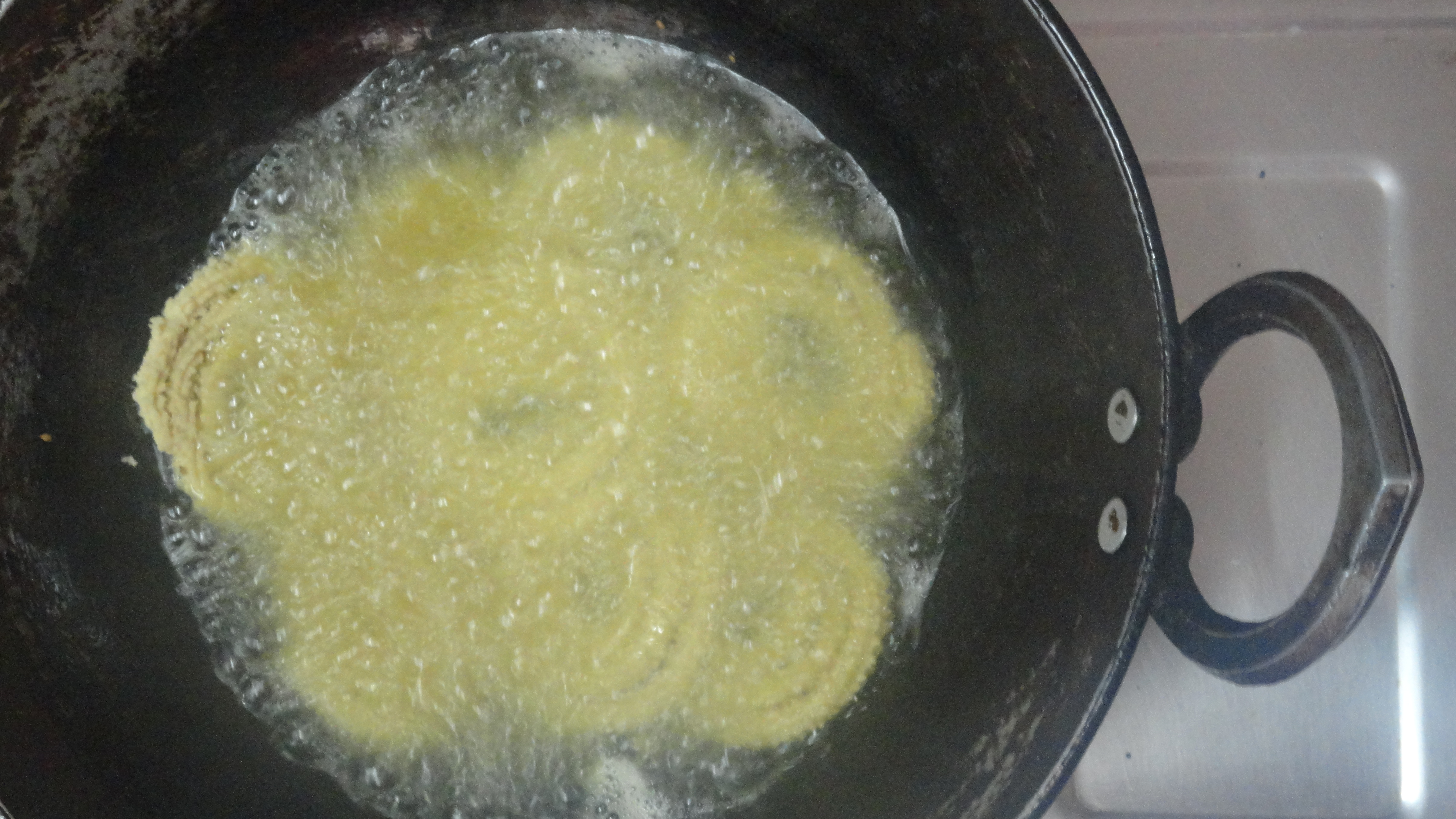 ಬಾಣಲೆಯ ಬಿಸಿ ಕಡಲೆಕಾಯಿ ಎಣ್ನೆಯಲ್ಲಿ ತೇಲುತ್ತಿರುವ ಚಕ್ಕುಲಿ